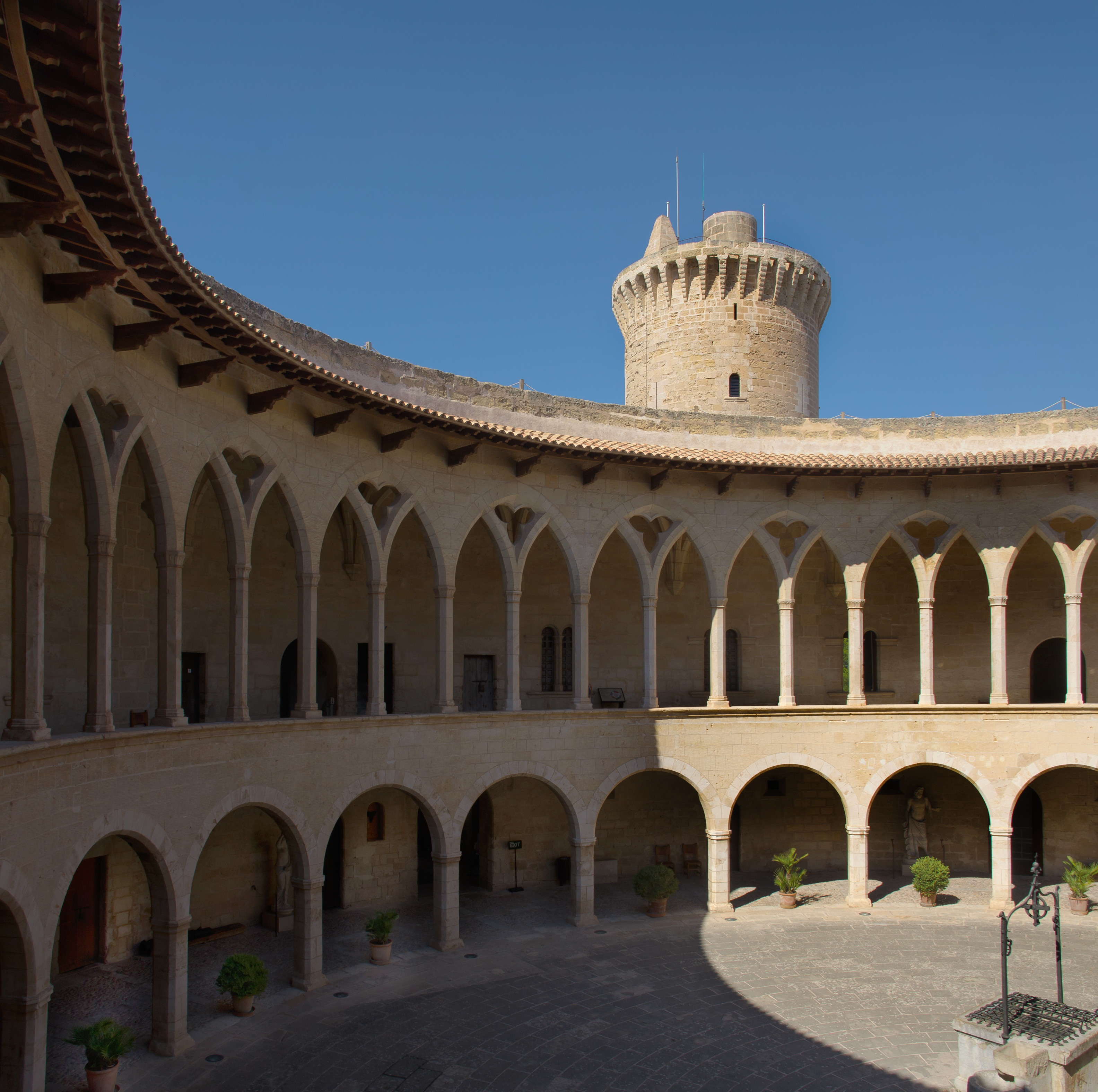 Castell de Bellver, Palma de Mallorca NOTE: This image is a panorama consisting of 2 frames that were merged in Hugin. As a result, this image necessarily underwent some form of digital manipulation. These manipulations may include blending, blurring, cloning, and color and perspective adjustments. As a result of these adjustments, the image content may be slightly different than reality at the points where multiple images were combined. This manipulation is often required due to lens, perspective, and parallax distortions.